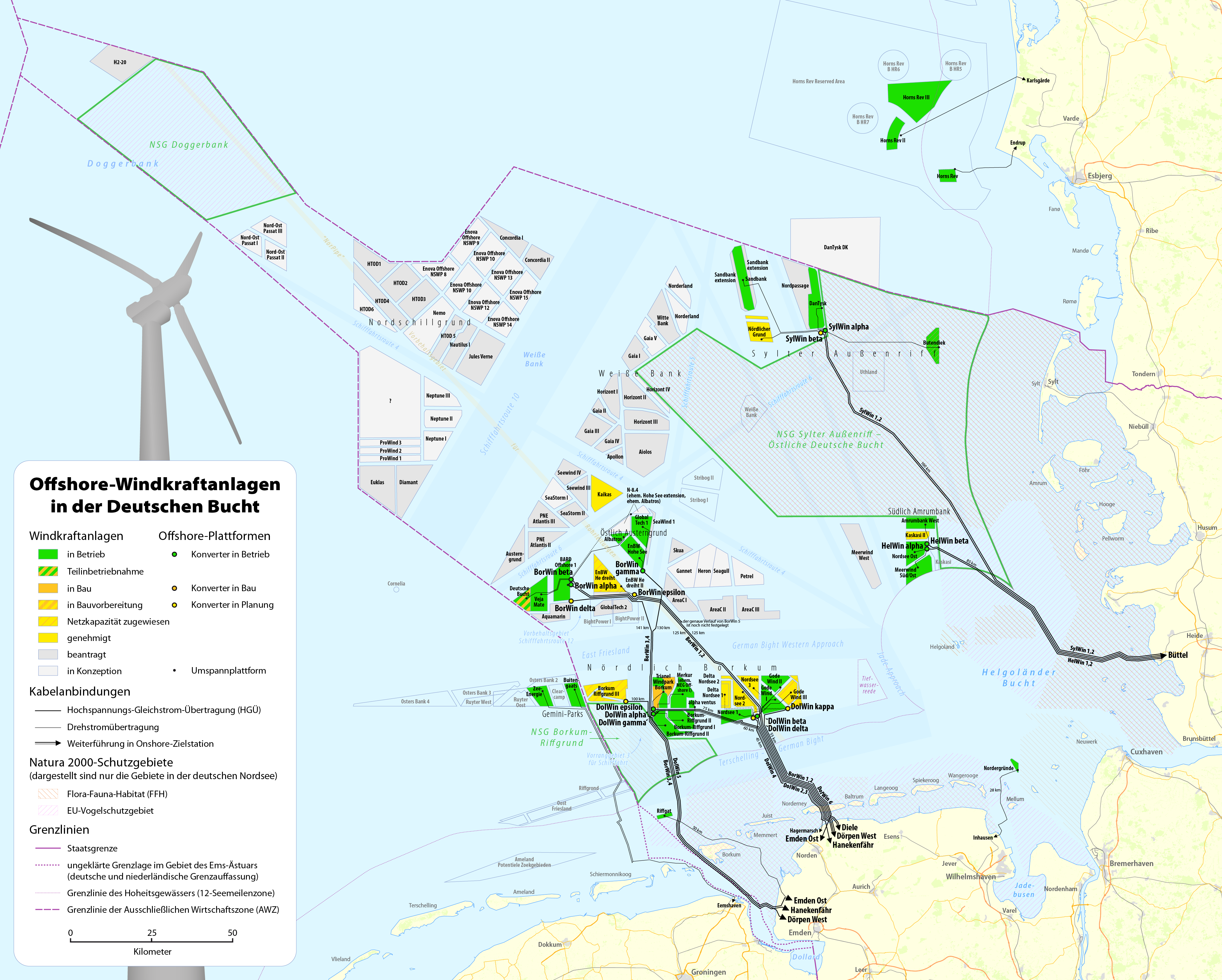 Map of offshore wind farms and connecting power cables in the German Bight